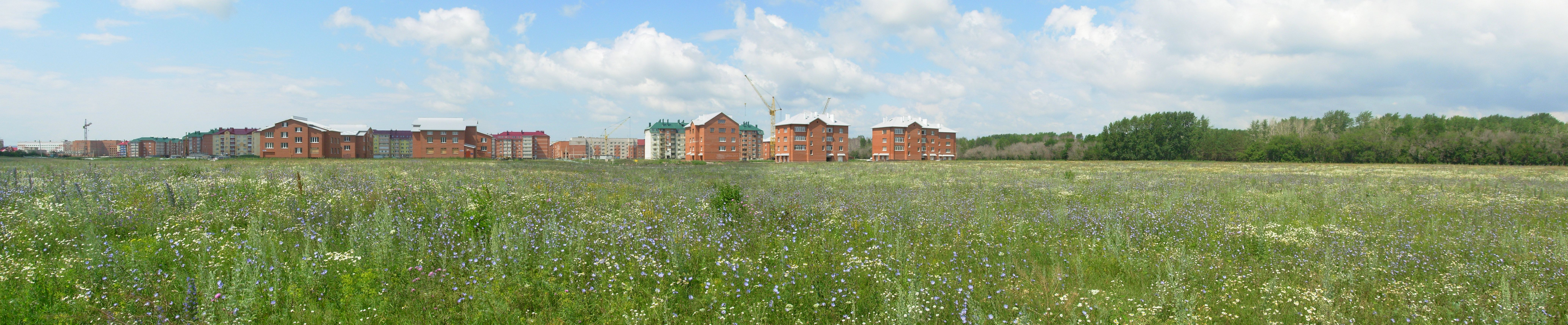 town